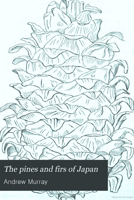 The Pines and Firs of Japan by Andrew Murray (1812-1878), work edited in 1863